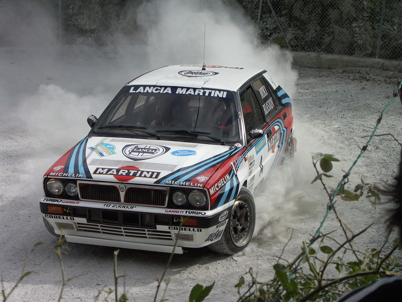 San Marino, October 6–7, 2006. The 1990–91 Lancia Delta HF Integrale 16v of Massimo "Miki" Biasion at 2006 Rally Legend.